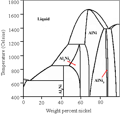 Summary Phase diagram of Ni-Al binary system.